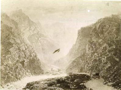 Georgian Military Road; Dar'ial Gorge